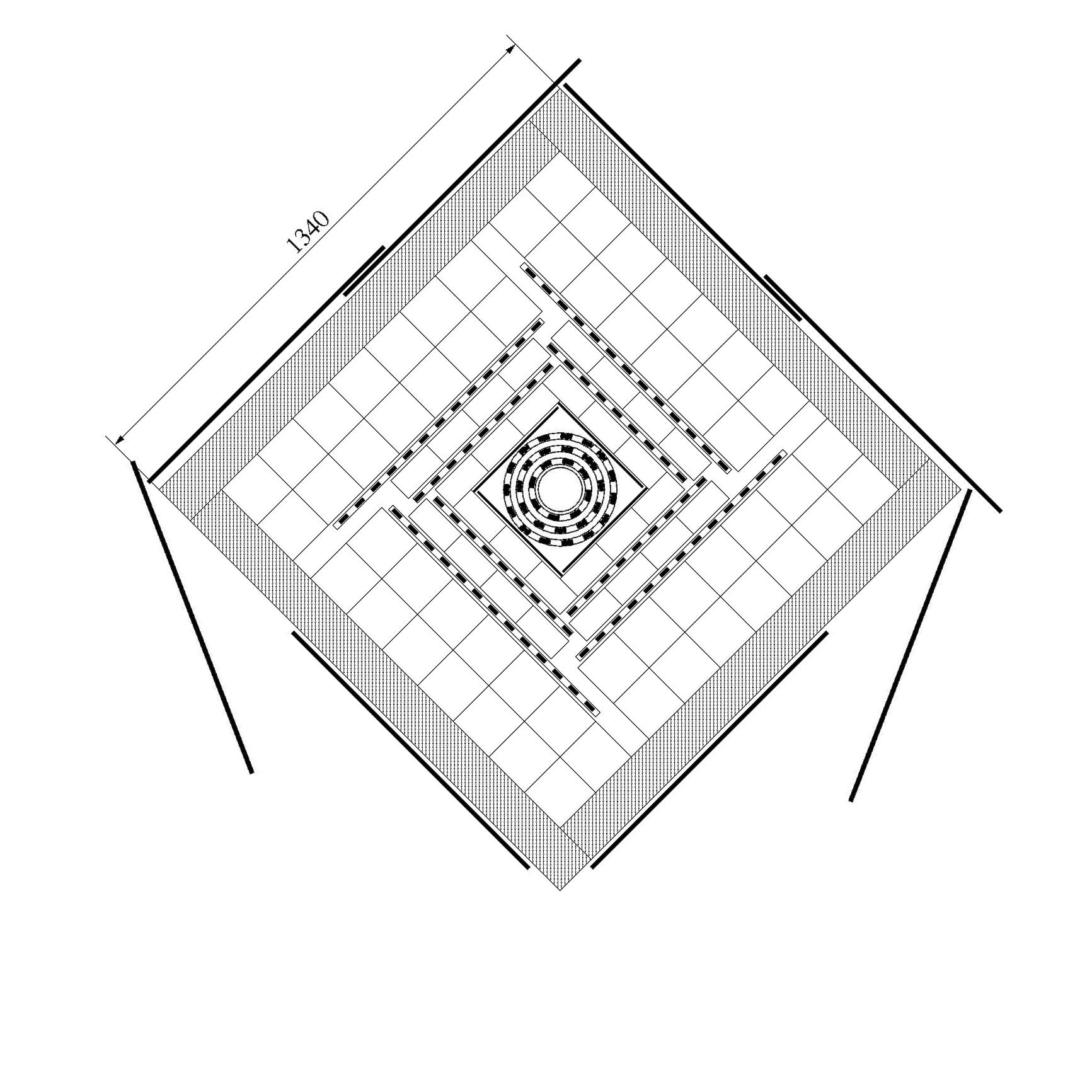 Neutral Detector R-Phi projection, corrected version